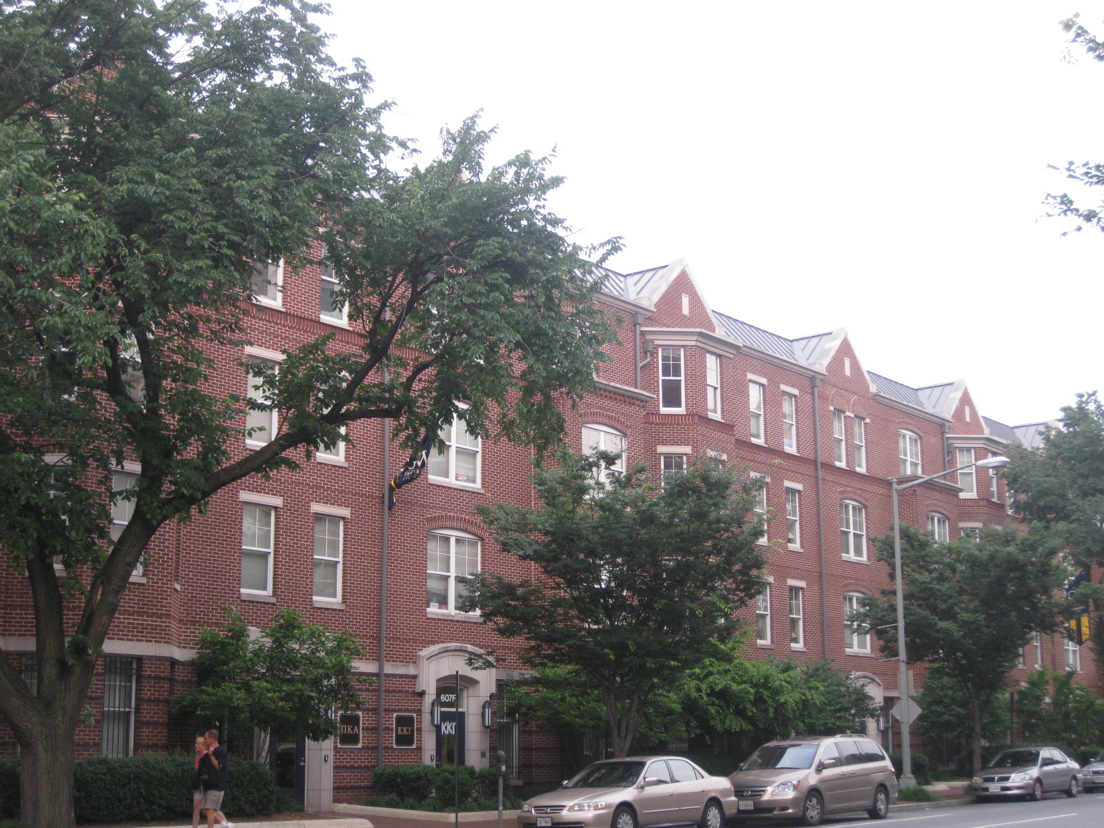 The Townhouse Row Greek residences at the George Washington University.